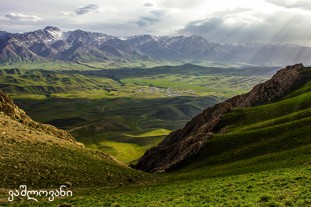 View of Sibak